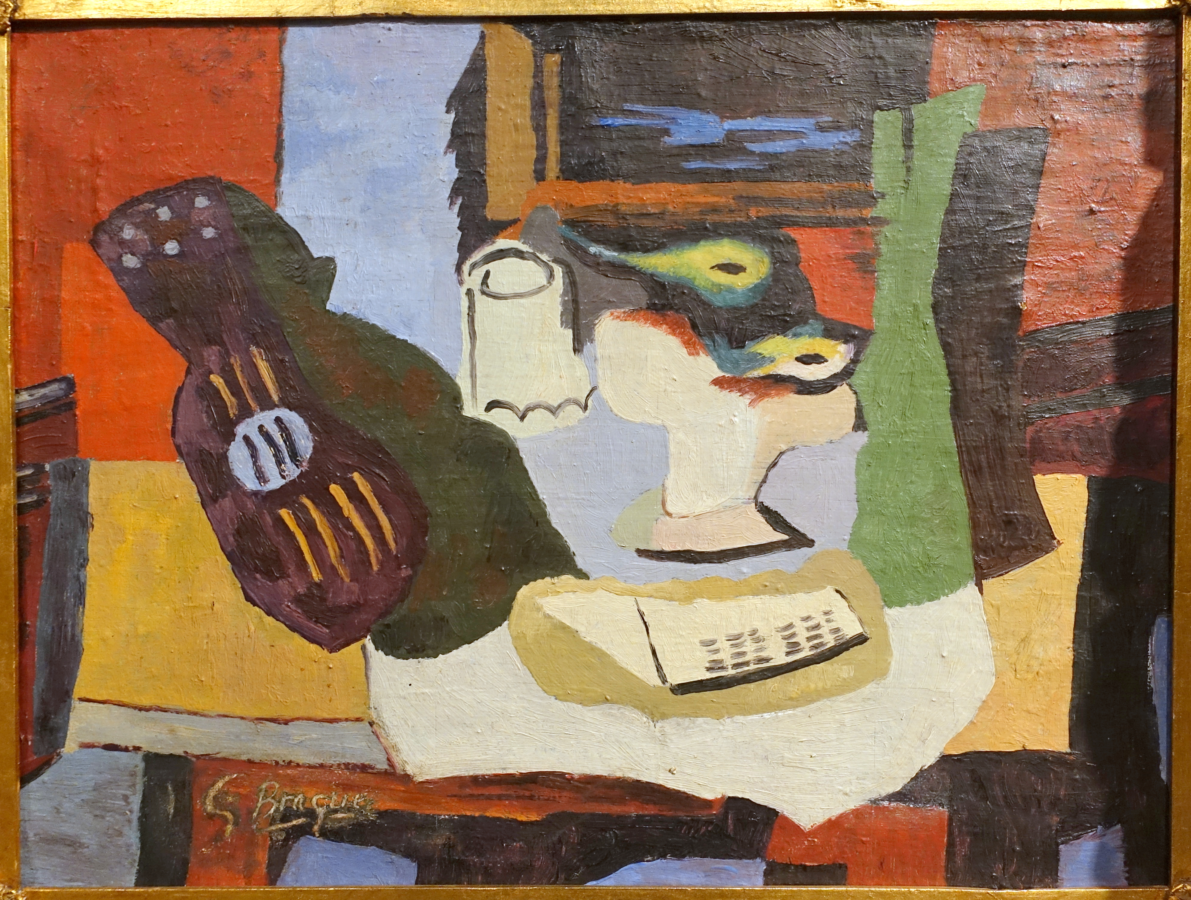 Exhibit in the Kulenovic Collection - Karlskrona, Sweden. Information about this item was provided by the museum. All artwork is old enough so that it is in the public domain.